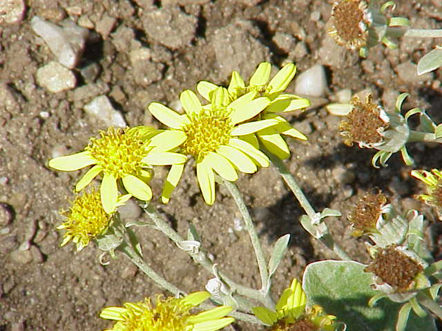 Species: Senecio greyi Family: Asteraceae Image No. 1